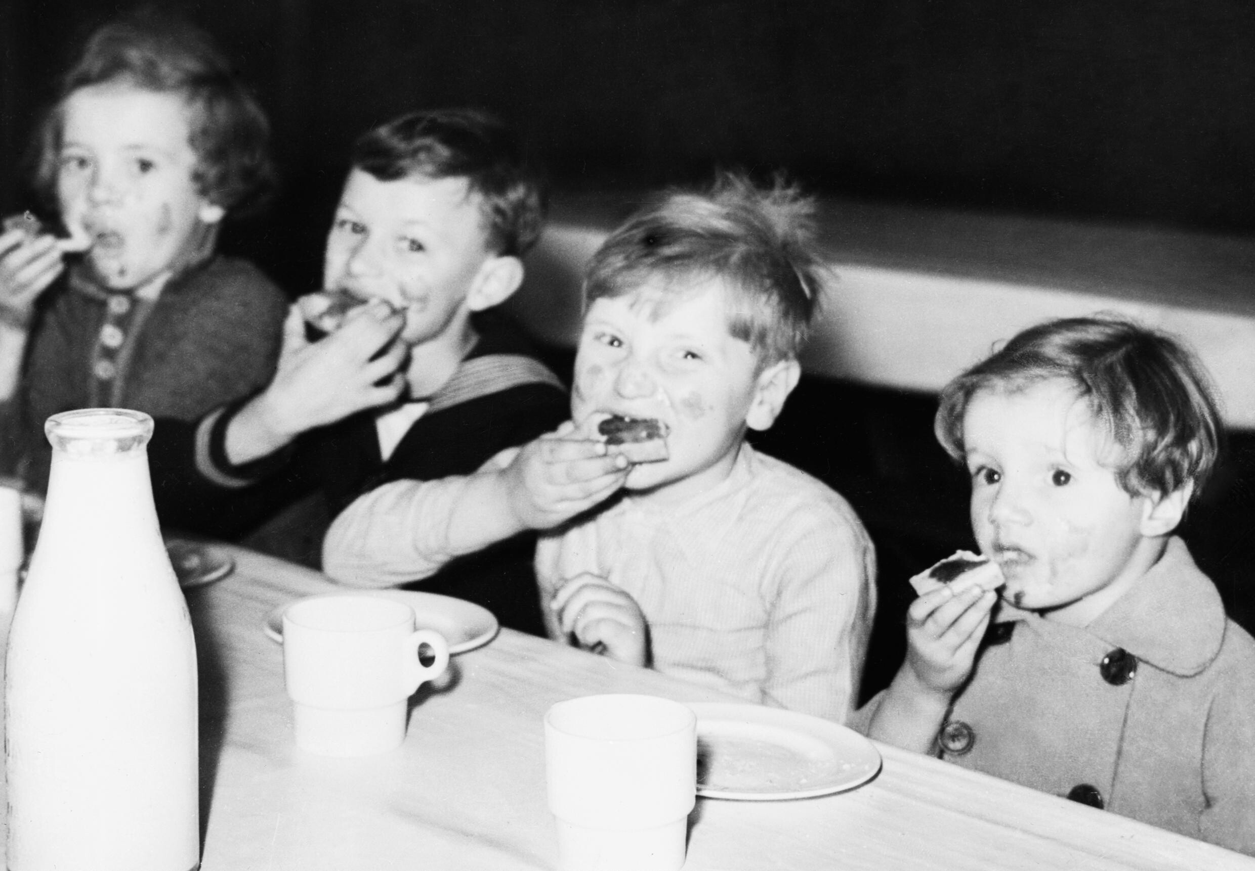 Four young Belgian refugees enjoy bread and jam for tea in London during 1940. Four young Belgian refugees enjoy bread and jam for tea at their billet, somewhere in London, their faces covered in jam. A bottle of milk can be clearly seen on the table.